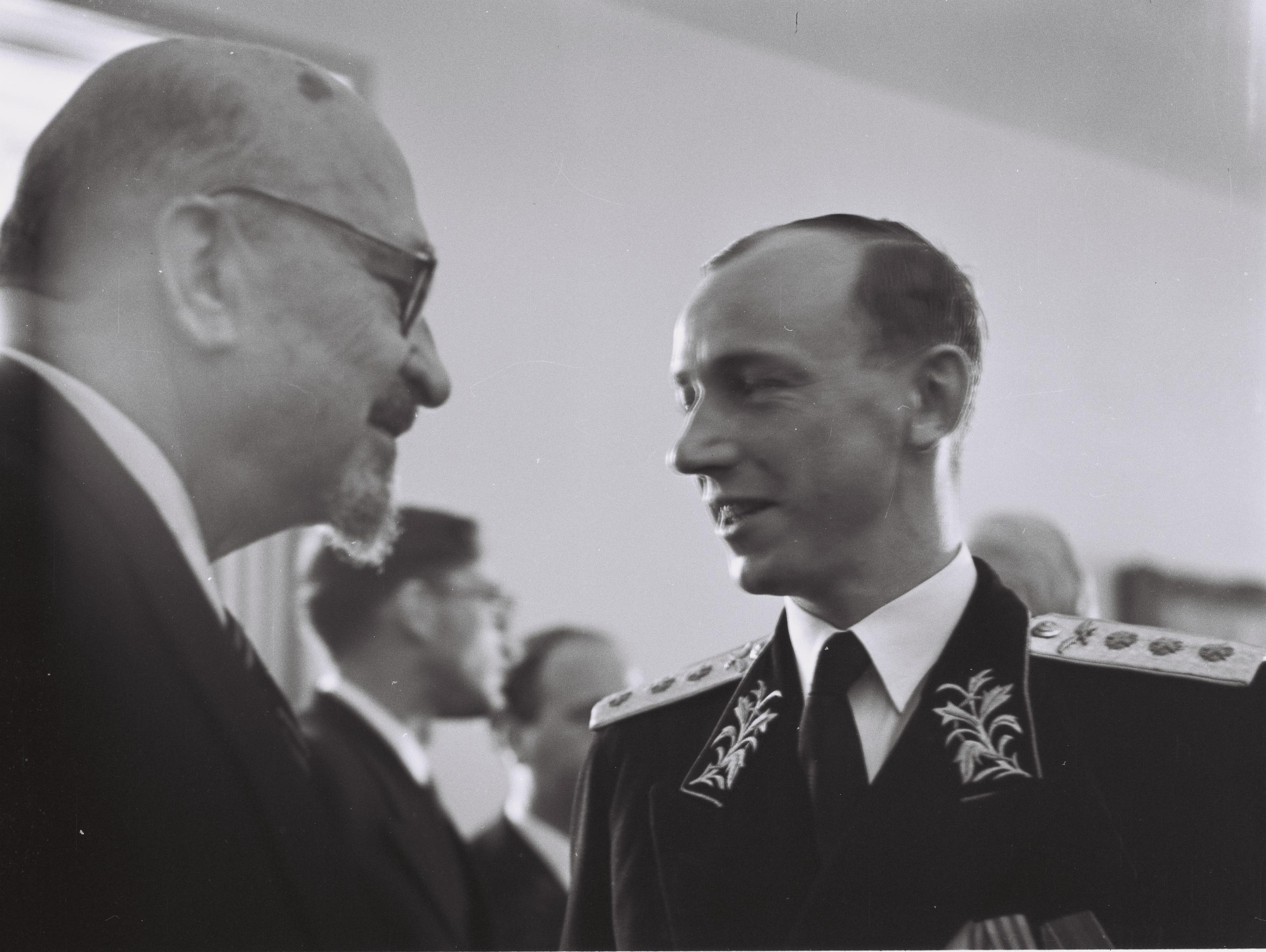 President Haim Weizmann chats with u.s.s.r. minister Pavel Yershov, at the independence day reception at the pres. home in Rehovot.